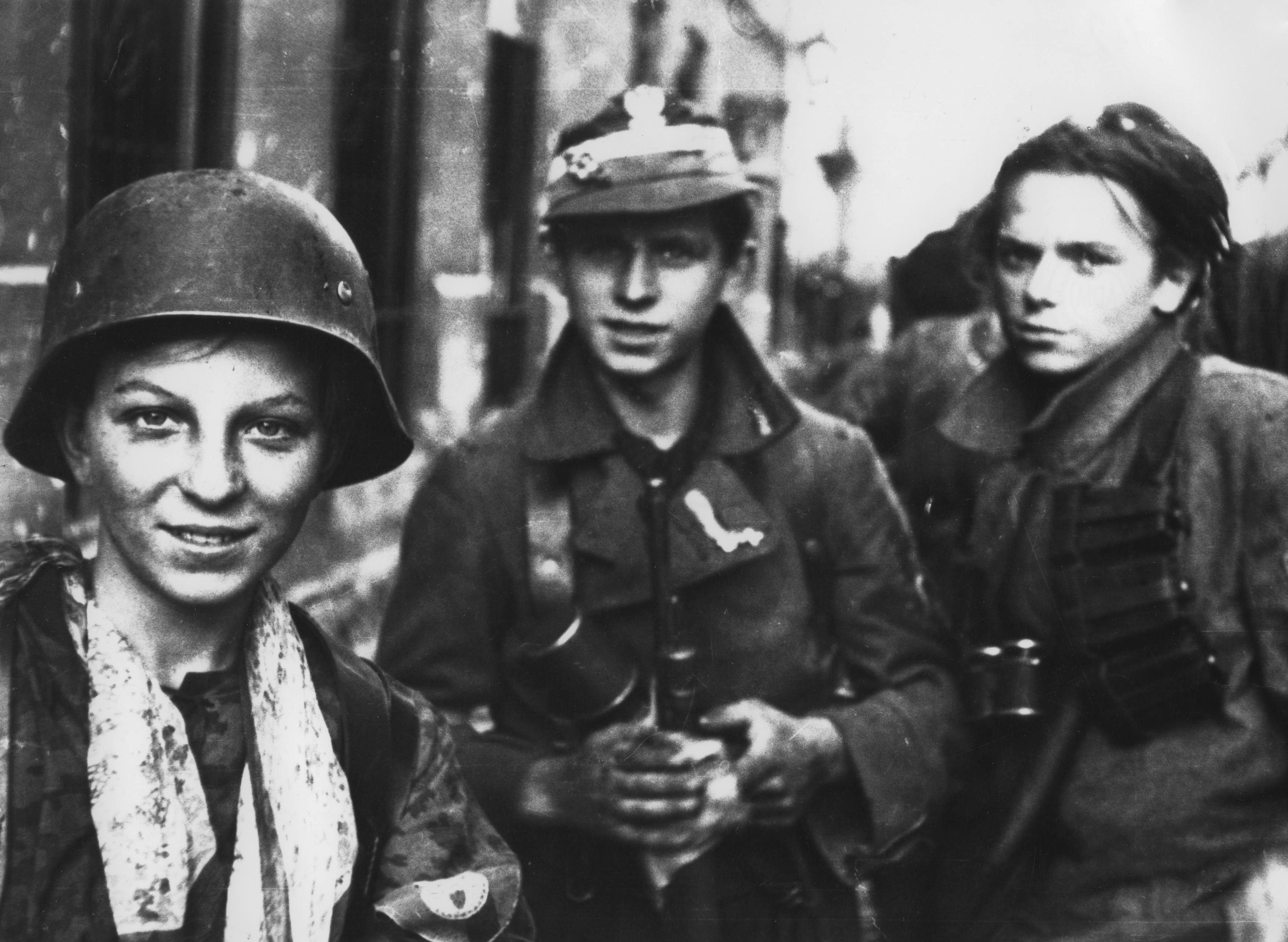 Warsaw Uprising: Soldiers from the "Radosław Regiment" after several hours marching through sewers from Krasiński Square to Warecka Street in the Śródmieście district, early morning on September 2, 1944. The boy in helmet is Tadeusz "Maszynka" Rajszczak from the Miotła Battalion.